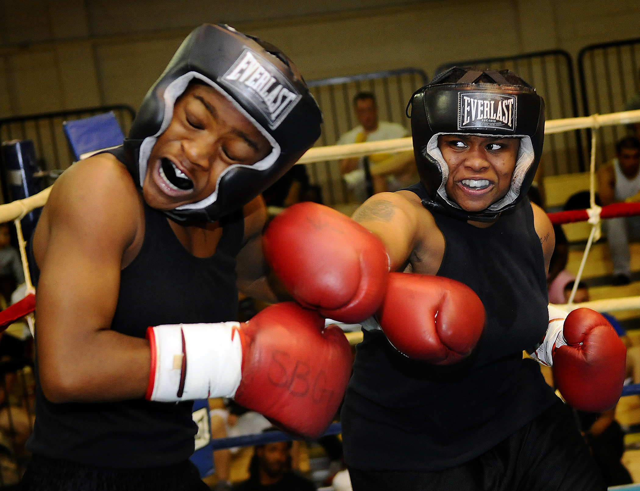 VIRGINIA BEACH, Va. (Oct. 12, 2008) Cryptologic Technician Networks Seaman Janea Arrington connects with a straight right to the jaw of Aviation Ordnanceman Airman Nakita Boyd during a sparring session at the All-Navy Boxing Team mini-camp at Rockwell Hall Gym at Naval Amphibious Base Little Creek. The two-day camp was one of two held across the country by All-Navy Boxing. Participants selected from the mini-camps received invitations to attend the All-Navy Boxing Training Camp at Naval Base Ventura County in Port Hueneme, Calif. and compete for a spot on the 2009 All-Navy Boxing Team. (U.S. Navy photo by Mass Communication Specialist 2nd Class Kristopher S. Wilson/Released)